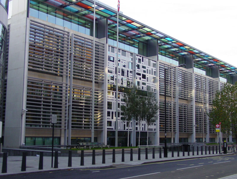 The current offices of the British Home Office, located at 2 Marsham Street, London. Photo taken on 15 November 2005 by User:Canley.